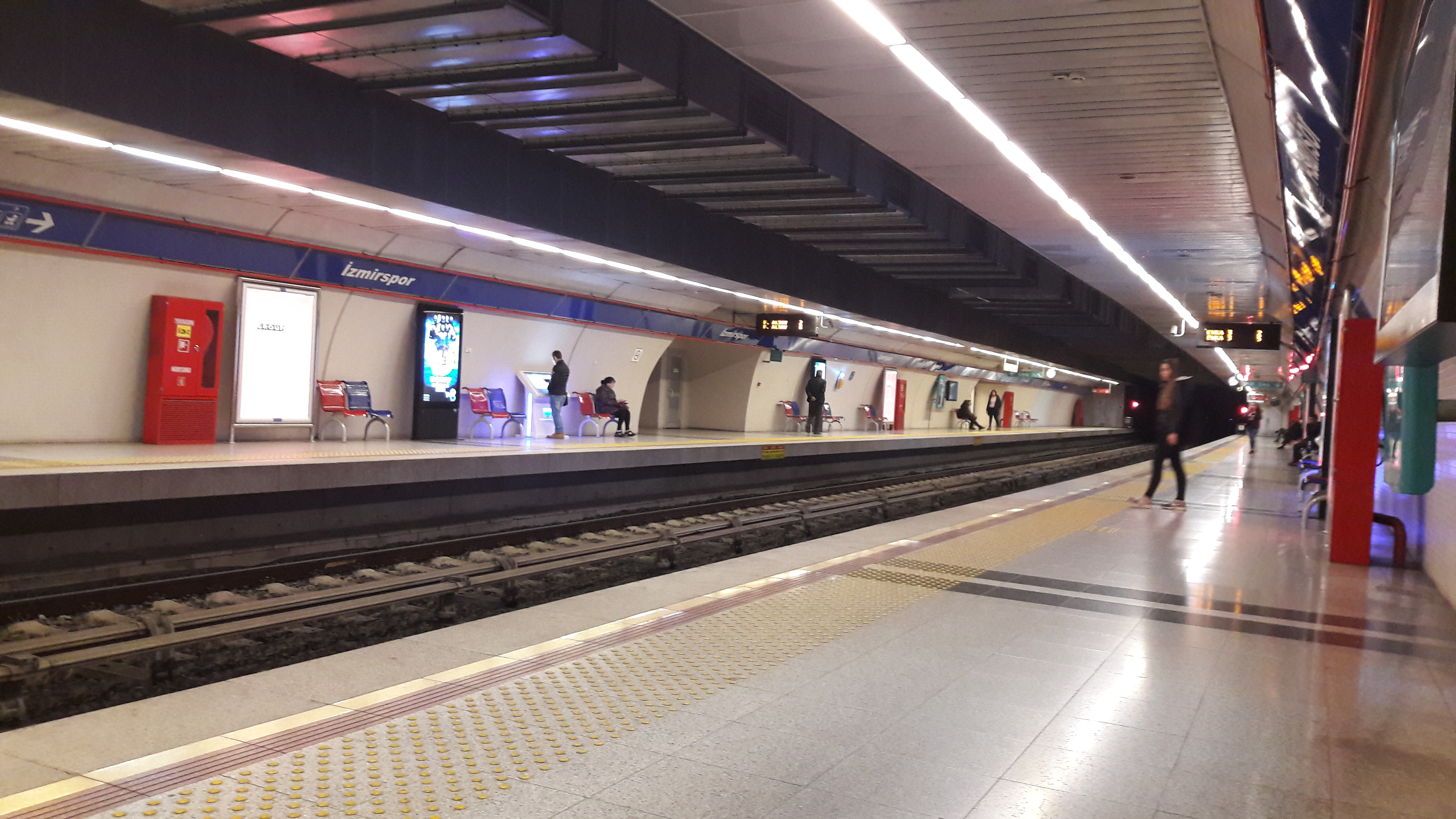 Izmirspor metro station.